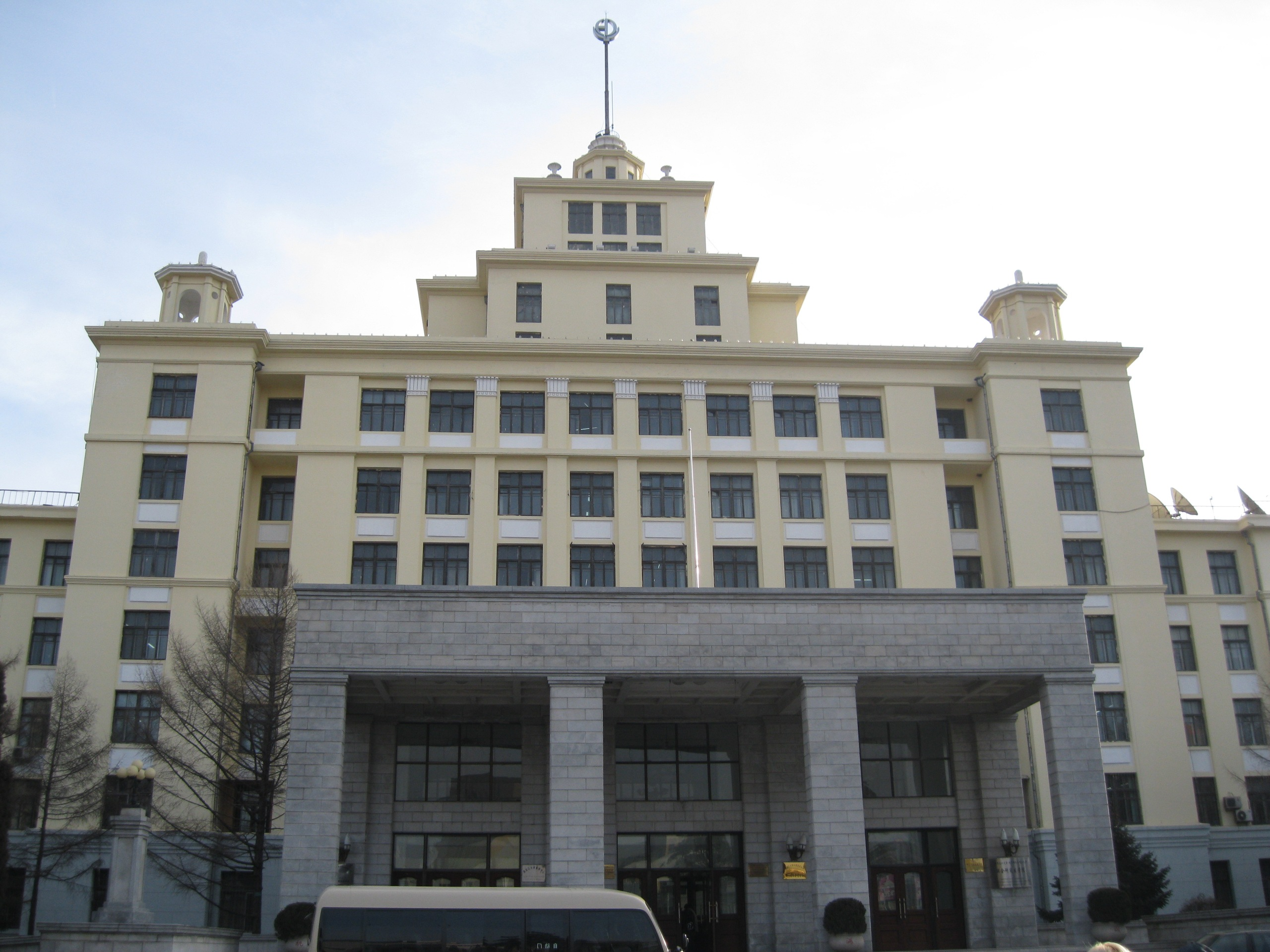 Administrative building of Heilongjiang University